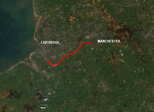 The Manchester Ship Canal